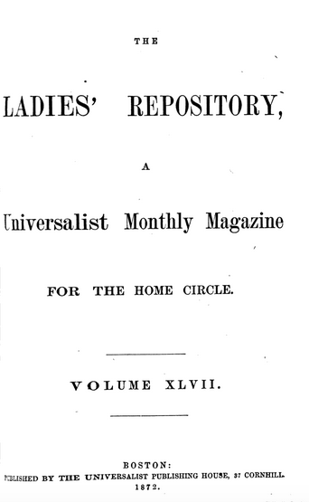 The Ladies' Repository, a Universalist Monthly Magazine